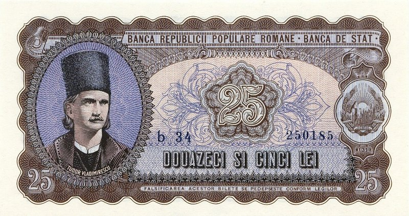 25 Romanian leu from 1952 - obverse